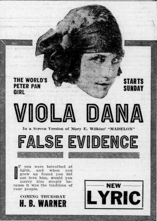 Newspaper ad for the American drama film False Evidence (1919) with Viola Dana, on page 11 of the January 17, 1920 Duluth Herald.